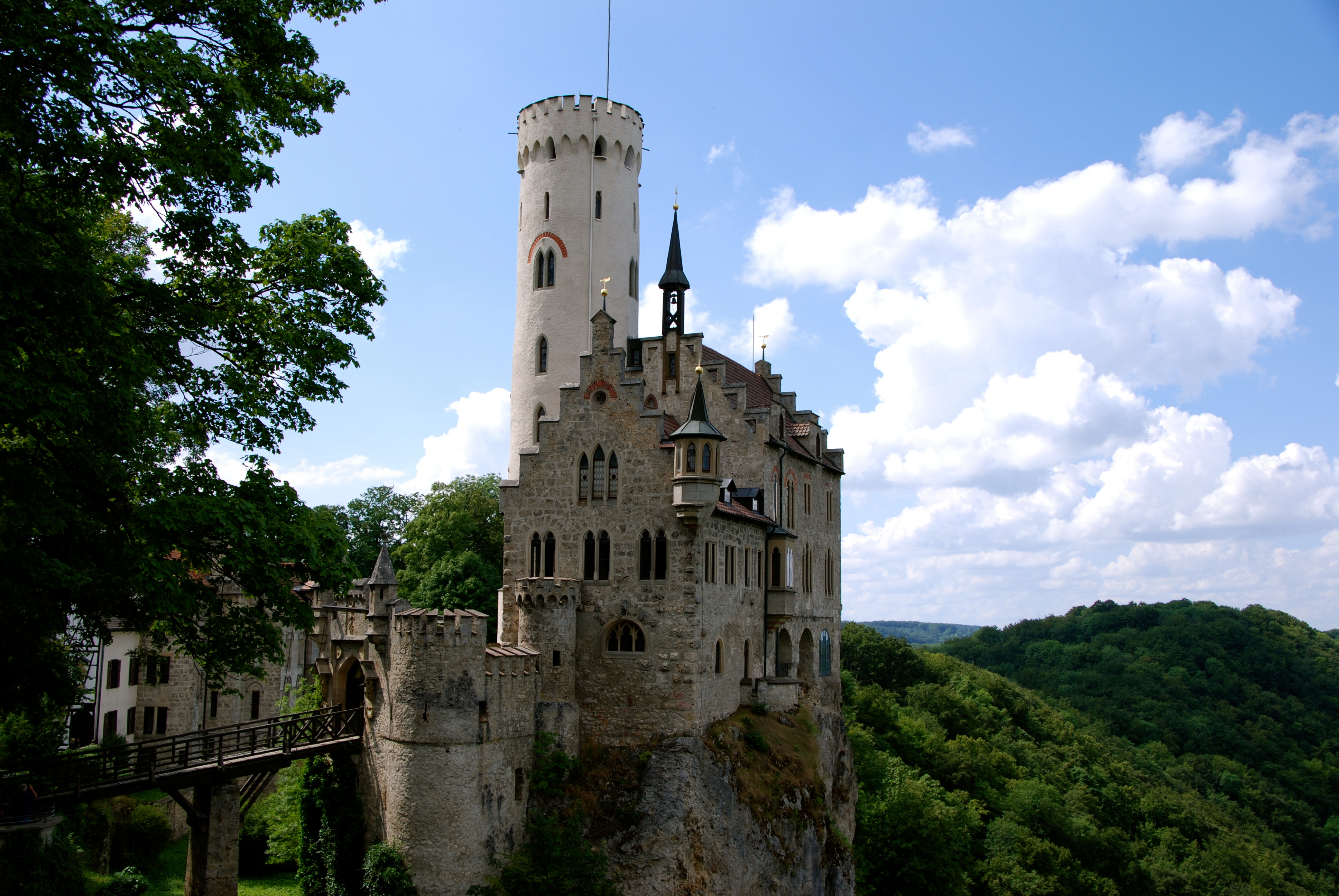 Lichtenstein Castle, Germany